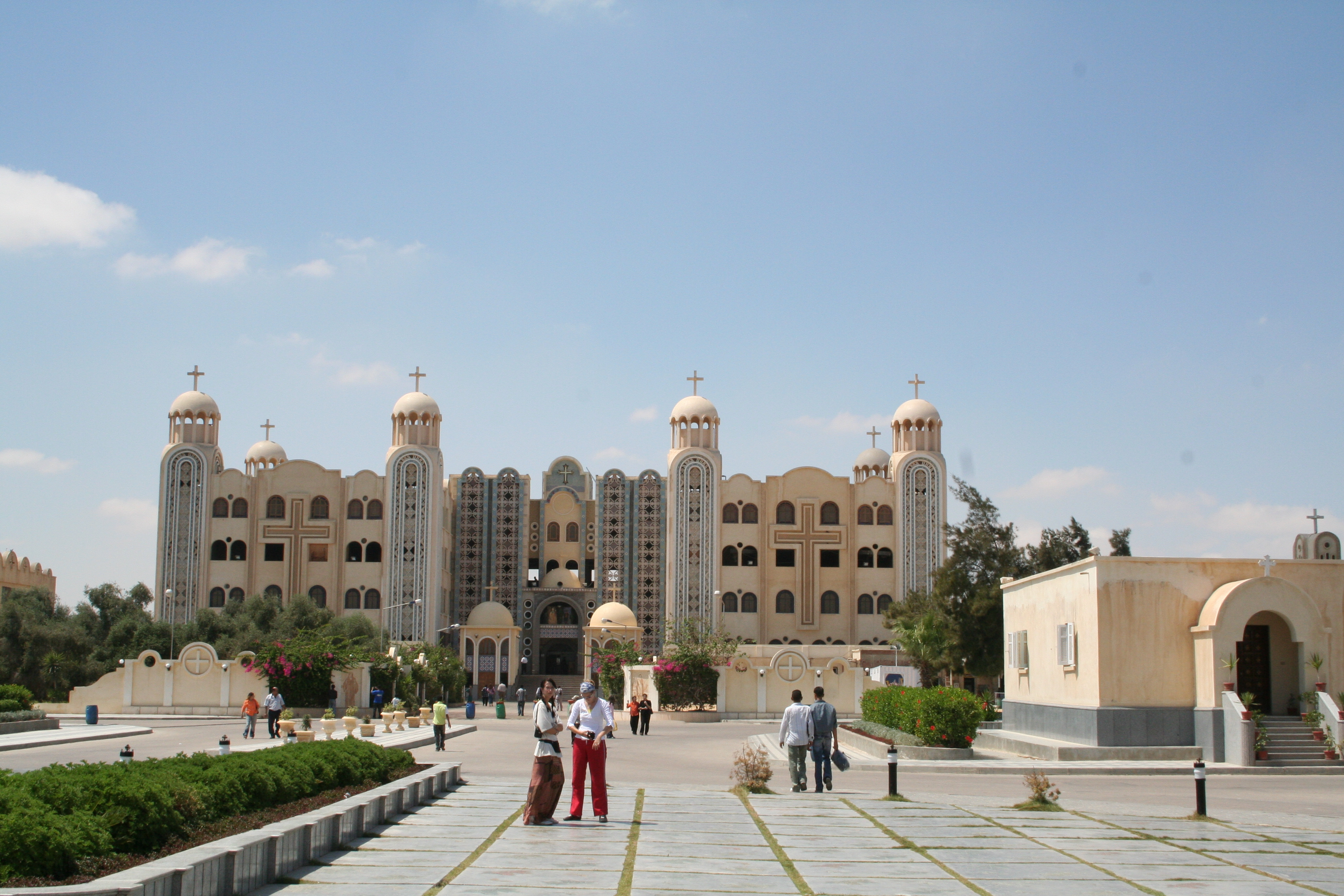 Abu Mena, Modern Monastery